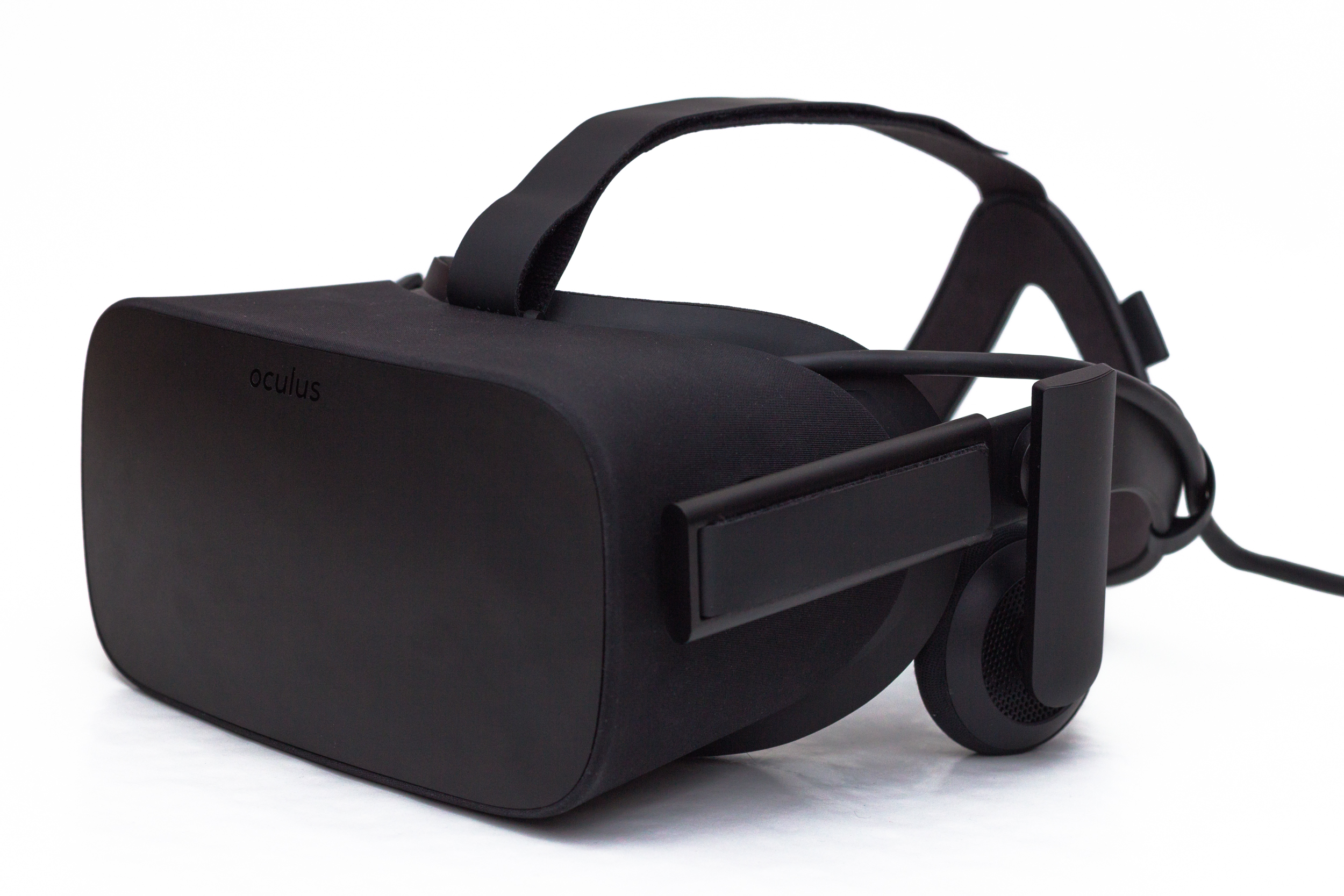 The Oculus Rift CV1 headset.